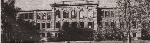 Scool at Rybatskoye (now St-Petersburg) by the architect Lev Shishko (1909)